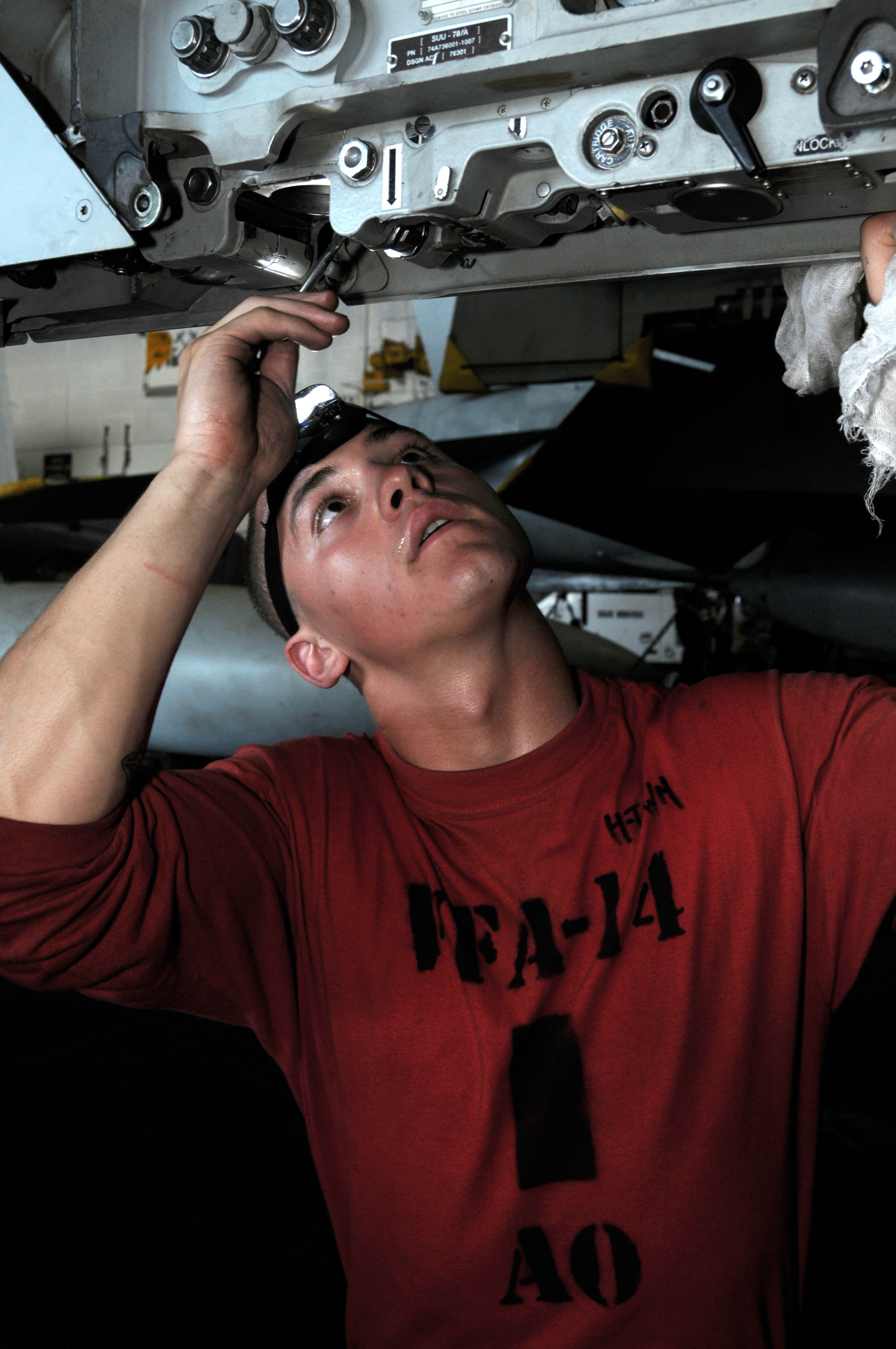 BAY OF BENGAL (Sept. 14, 2009) Aviation Ordnanceman Airman Seth Houston, assigned to the Tophatters of Strike Fighter Squadron (VFA) 14, inspects and cleans a BRU-32 bomb rack in the hangar bay of the aircraft carrier USS Nimitz (CVN 68). Nimitz and embarked Carrier Air Wing (CVW) 11 are deployed to the U.S. 5th Fleet area of responsibility. (U.S. Navy photo by Mass Communication Specialist 3rd Class John Philip Wagner Jr./Released)